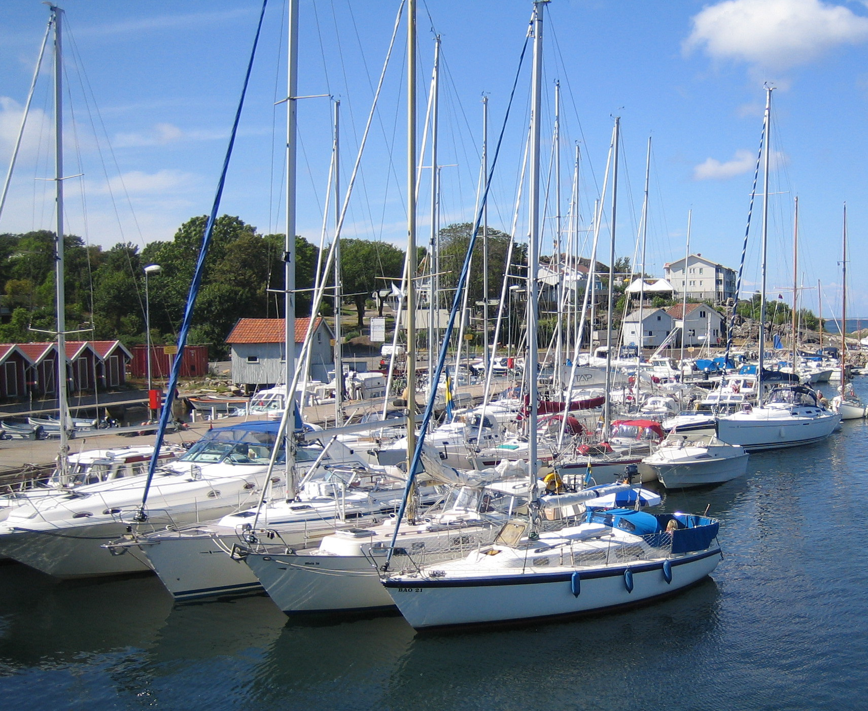 Picture from Ekenäs at Sydkoster, Strömstad municipality, Bohuslän, Sweden.